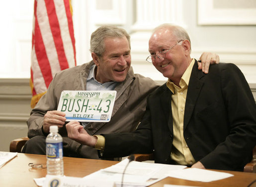 President George W. Bush is presented with a license plate with his name and the number 43 from Biloxi, Miss., Mayor A.J. Holloway, during a meeting Thursday, March 1, 2007 in Biloxi, on the recovery and reconstruction efforts underway in the region devastated by Hurricane Katrina. White House photo by Eric Draper